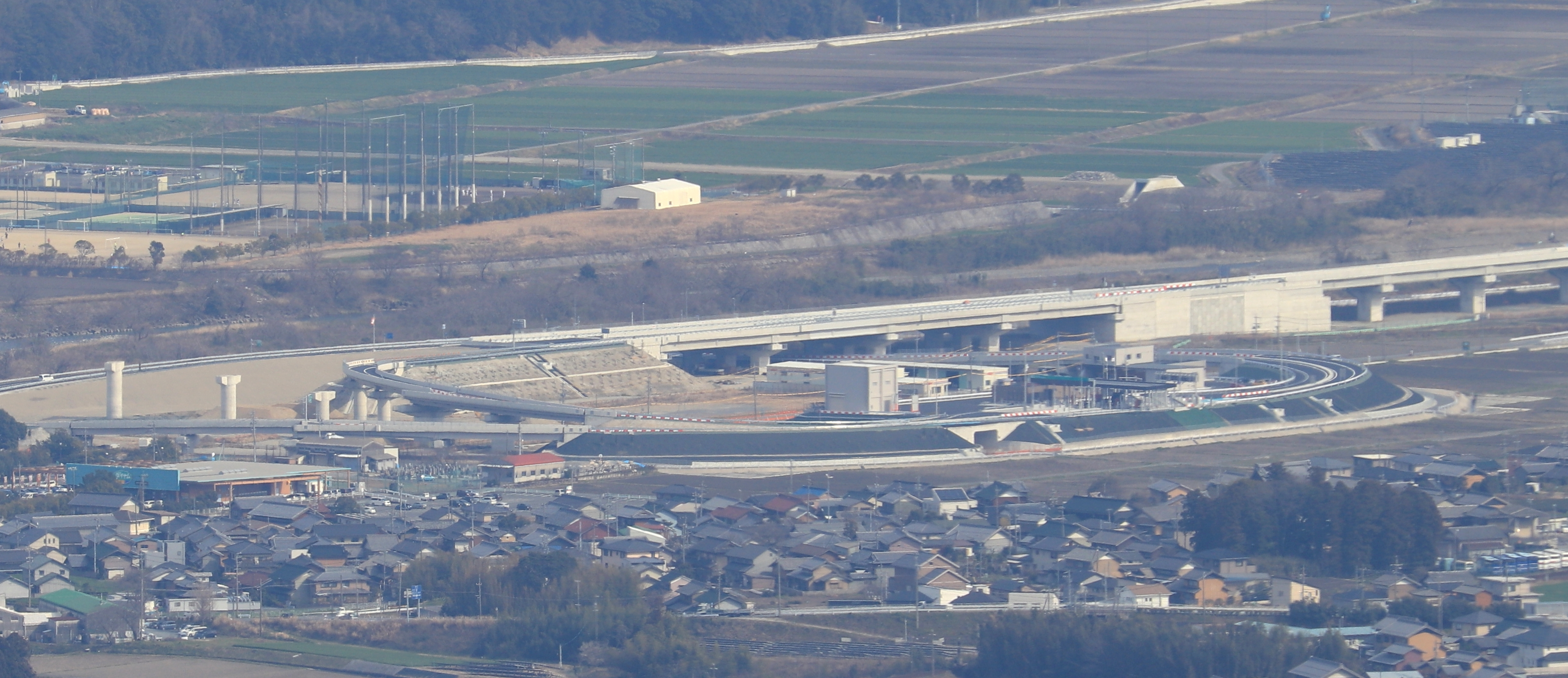 Daian Interchange on Tōkai-Kanjō Expressway seen from Mount Fujiwara, Suzuka Mountains in Inabe, Mie Prefecture, Japan. Canon EOS Kiss X9